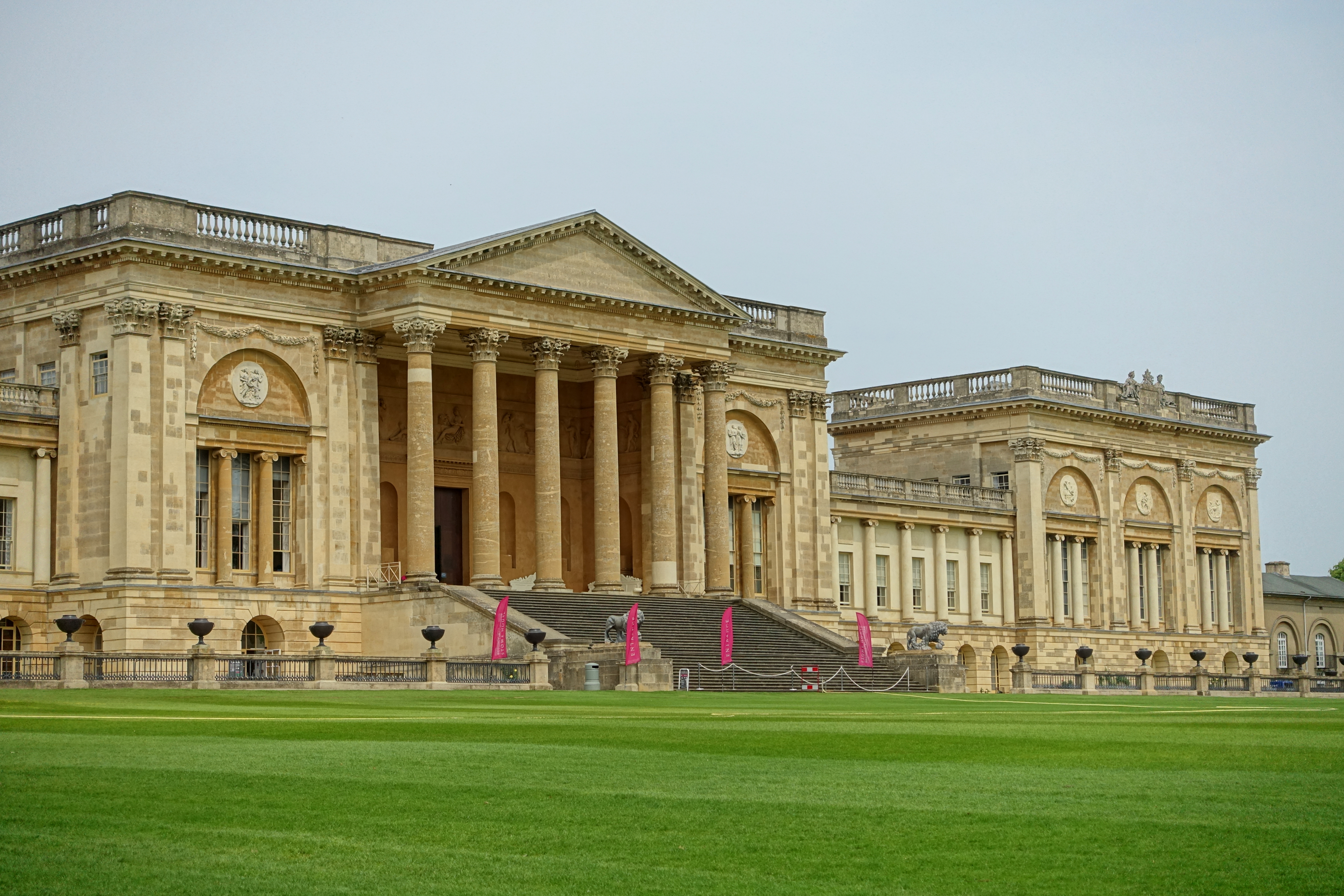 Stowe House - Buckinghamshire, England.